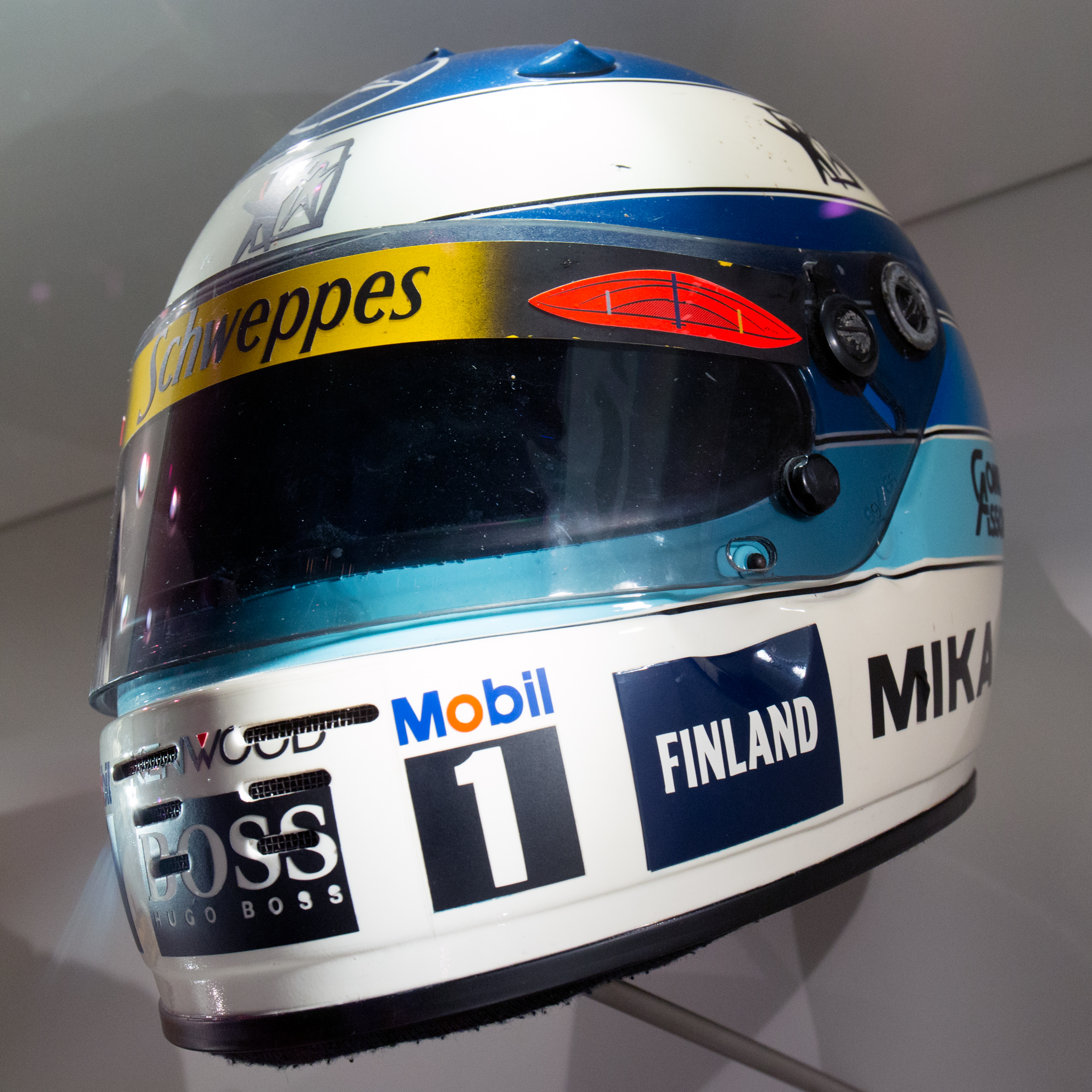 Helmet of Mika Häkkinen